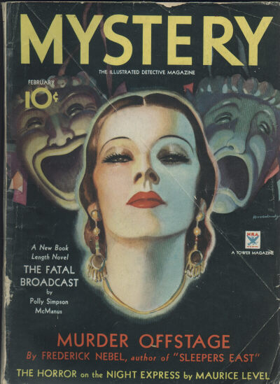 Cover of the pulp magazine Mystery (February 1934) featuring Murder Offstage by Frederick Nebel, The Fatal Broadcast by Polly Simpson McManus and The Horror on the Night Express by Maurice Level.